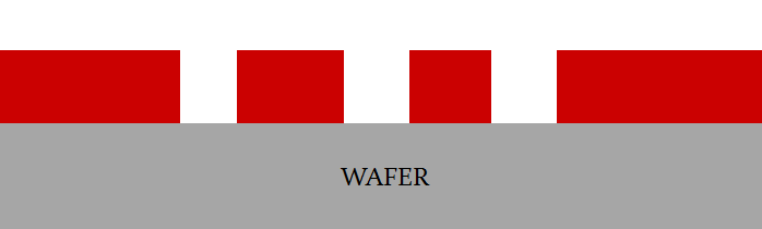 Step 3: Wafer with developped photoresist